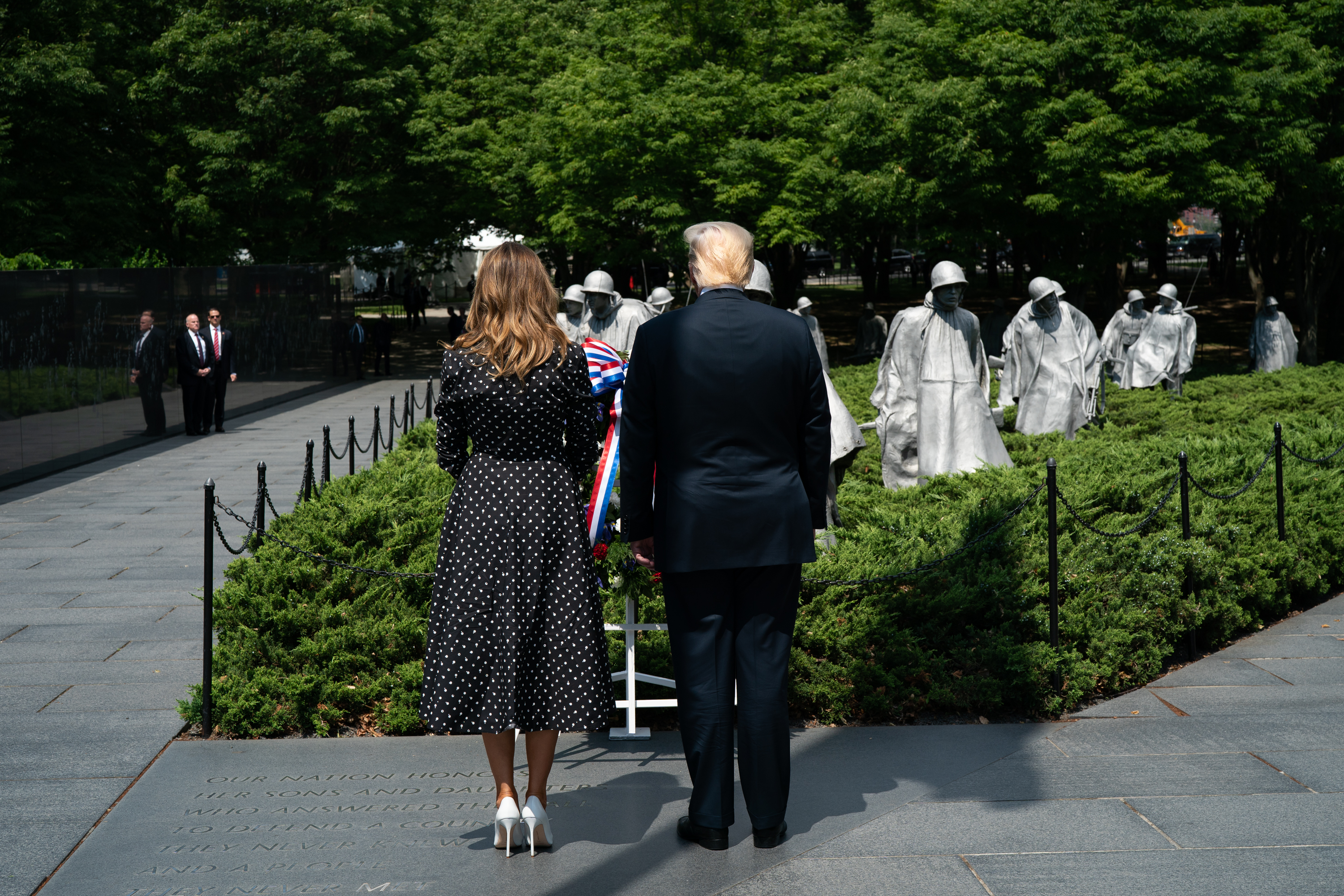 President Donald J. Trump and First Lady Melania Trump observe a moment of remembrance as they participate in a wreath laying ceremony at the Korean War Veterans Memorial in Washington, D.C. Thursday, June 25, 2020, in honor of the 70th anniversary of the Korean War. (Official White House Photo by Andrea Hanks)